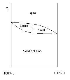 A binary phase diagram displaying solid solutions over the full range of relative concentrations.